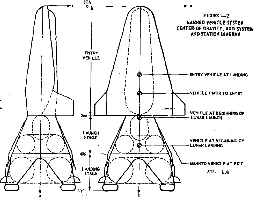 Basic diagram of the Lunex Project spacecraft.